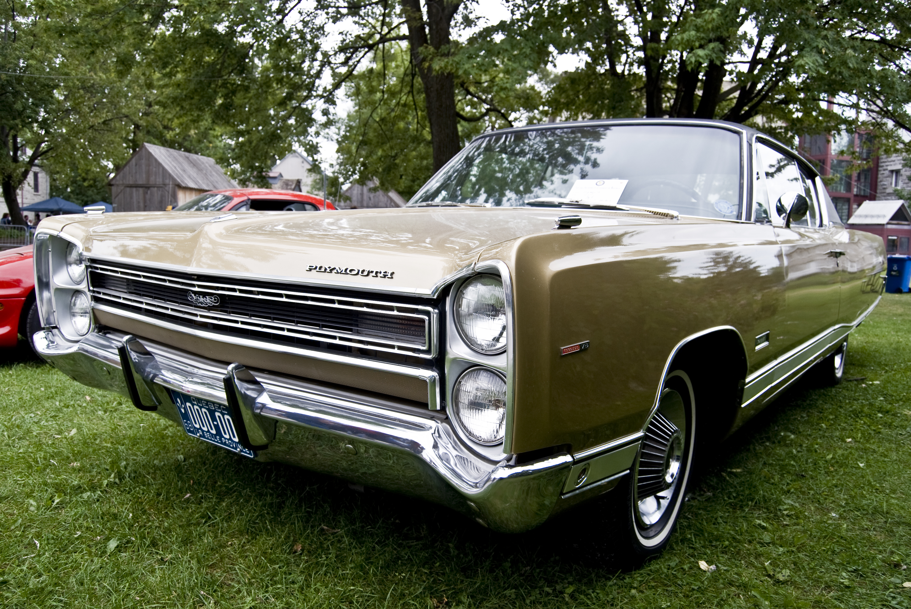 The pictured car is not a 1967 Plymouth Sport Fury, but rather a 1968 Plymouth VIP. The VIP was the top of the line for Plymouth in the late 60th. and from the picture it can be identified by the VIP emblem on the grill and the front fenders. This car can also be identified as a 1968 by the distinctive grill from a 1968 and by the side marker lights that became mandatory in 1968 but were not available in 1967...I was an owner of a 1967 Fury and could only wish it was as nice as this 1968 Plymouth VIP.